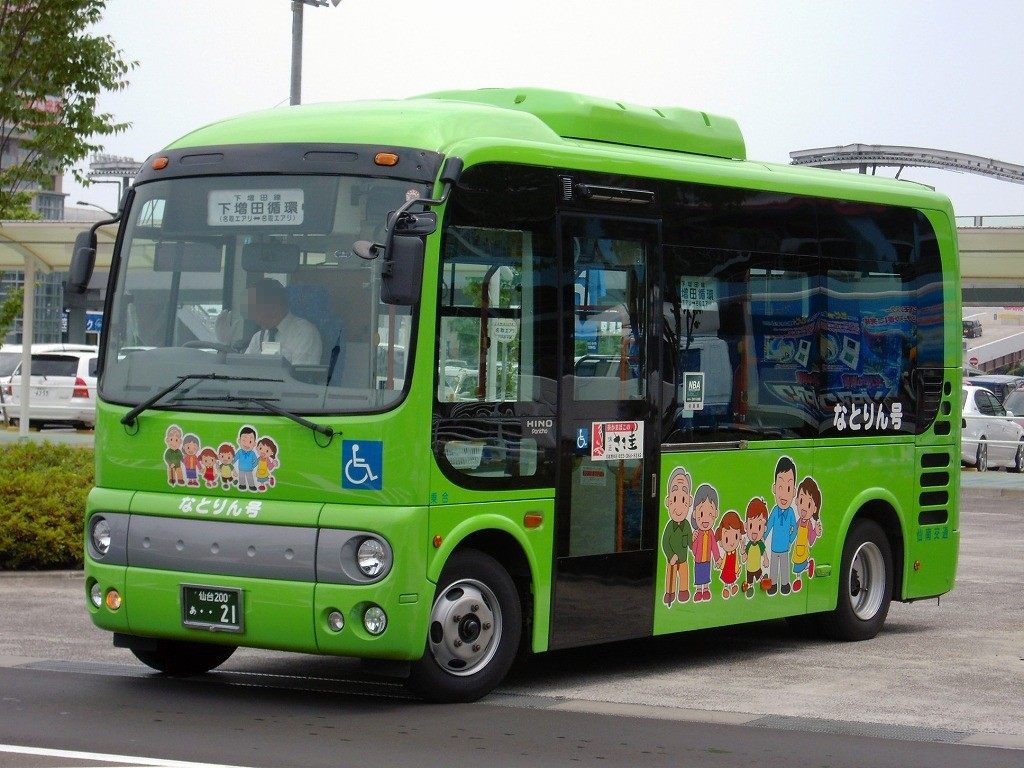 Sennan kotsu Hino Poncho(BDG-HX6JHAE)for "Natorin-go"(Natory city community bus)